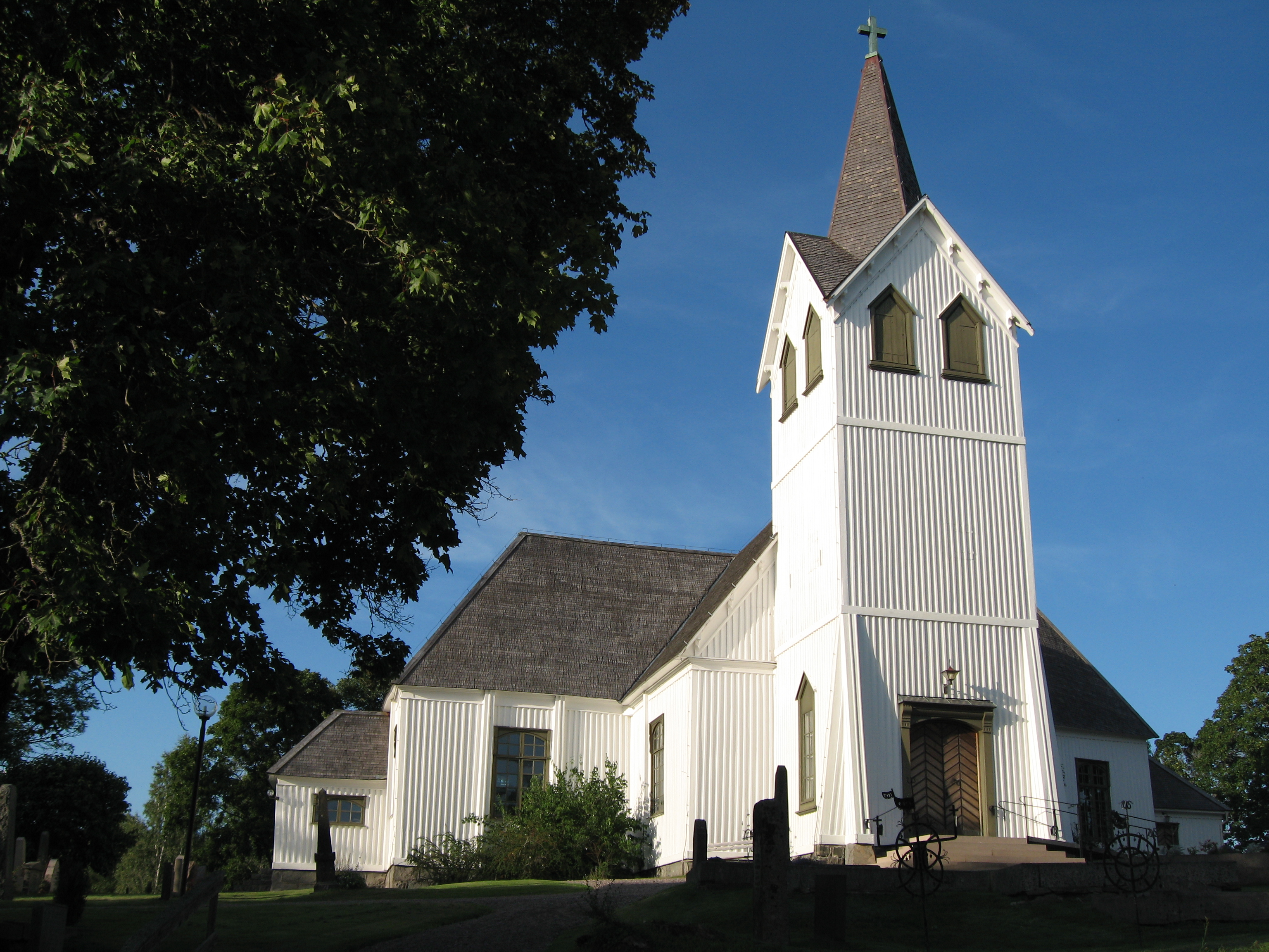 Laxarby church in Dalsland, Sweden.